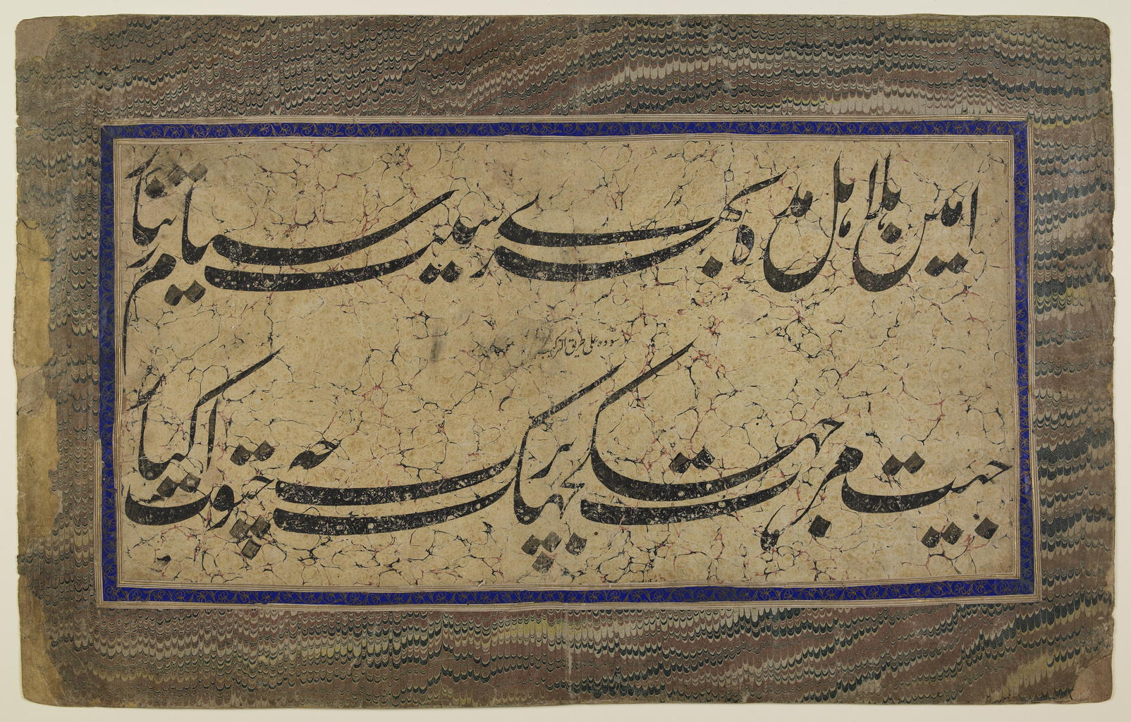 This calligraphic fragment includes an exercise in nasta'liq script that consists in combining letters (mufradat) in various formations. Albums of mufradat exercises include the single letters (al-huruf al-mufradah or, in the Ottoman tradition, huruf-i muqatta'a) of the Arabic alphabet in sequence, followed by letters in their composite form. Exercise books begin at least by the 16th century. They were used as books of exemplars of calligraphy to introduce students into the practice of handwriting and provide chains of transmission of calligraphic knowledge throughout the centuries.